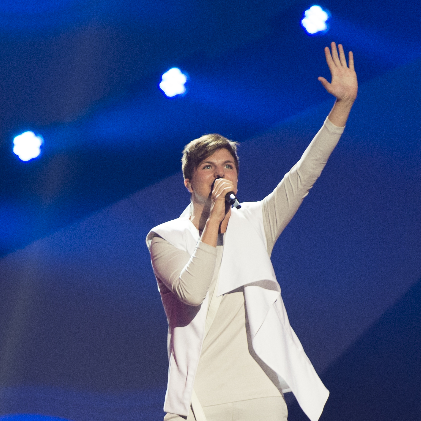 Robin Stjernberg representing Sweden with the song "You" during the first dress rehearsal of the final of the Eurovision Song Contest 2013 in Malmö. (Help translate this text)